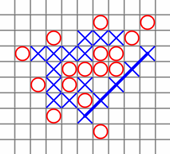 Five in a row game